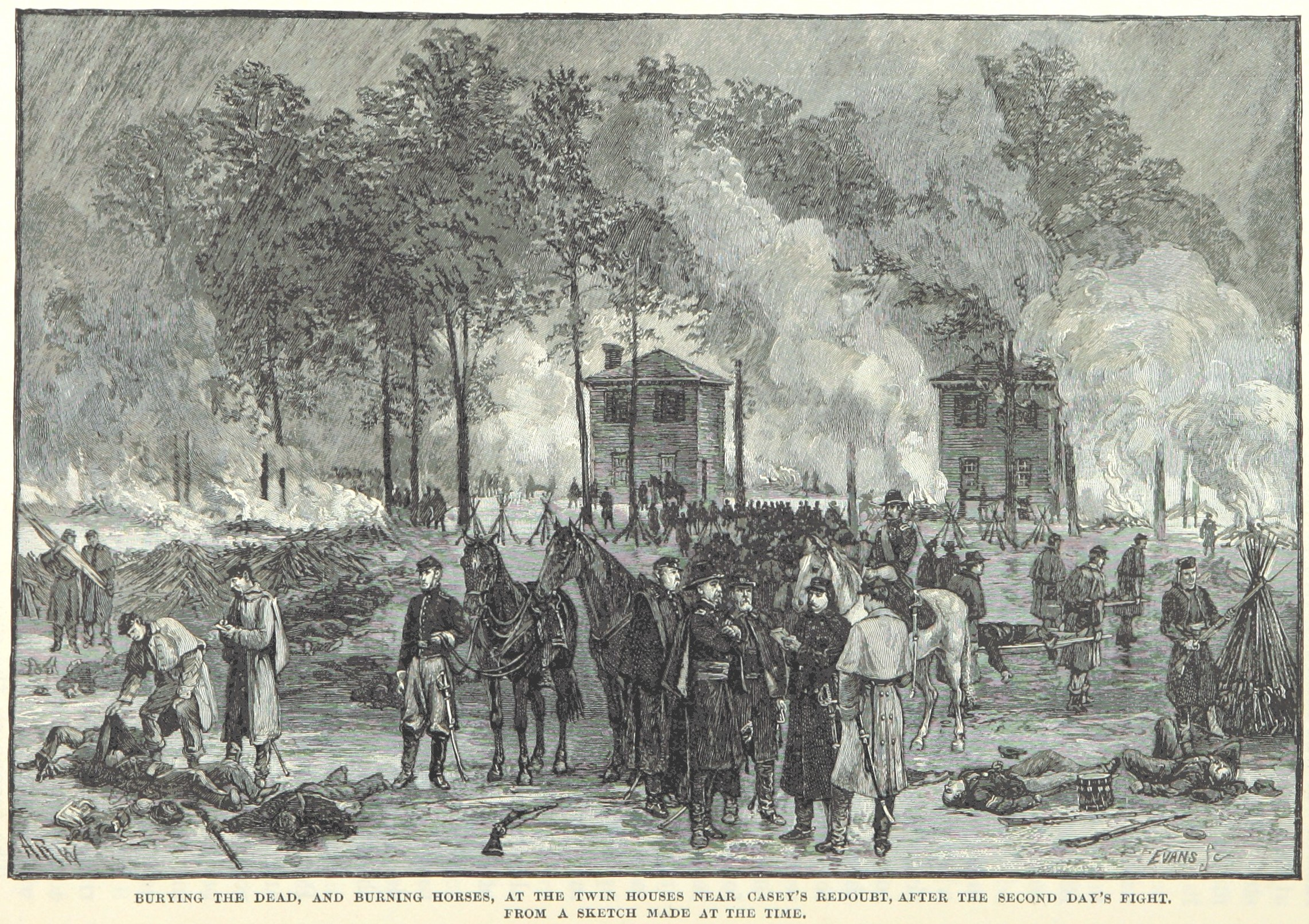 Union troops bury the dead and burn dead horses near General Casey's position after the Battle of Seven Pines.